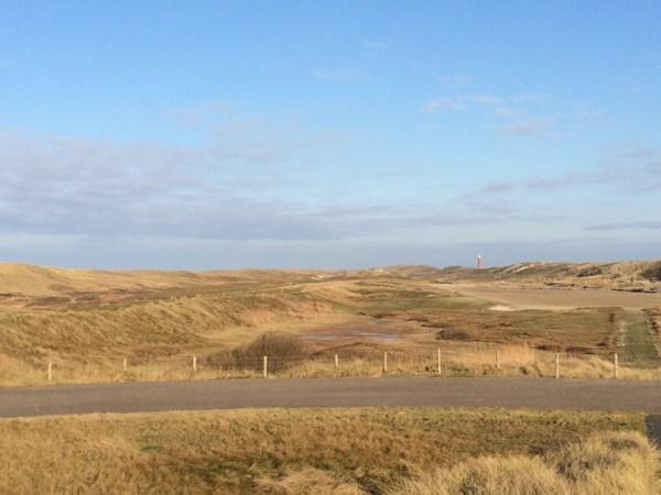 Nature reserve Het Botgat, around 2014. Still visible is the former shooting range for the air defence artillery. Photo taken from the new watchtower in the center of the launching site of the target drones.